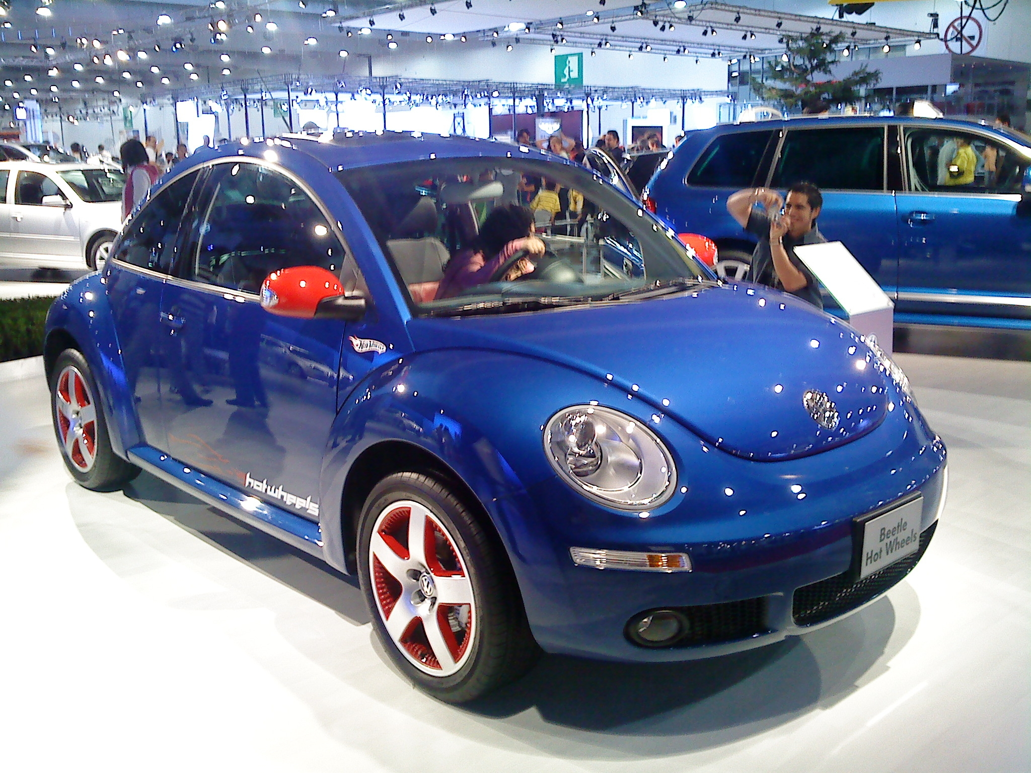 The Volkswagen New Beetle Hot Wheels Limited Edition at the 2008 SIAM.